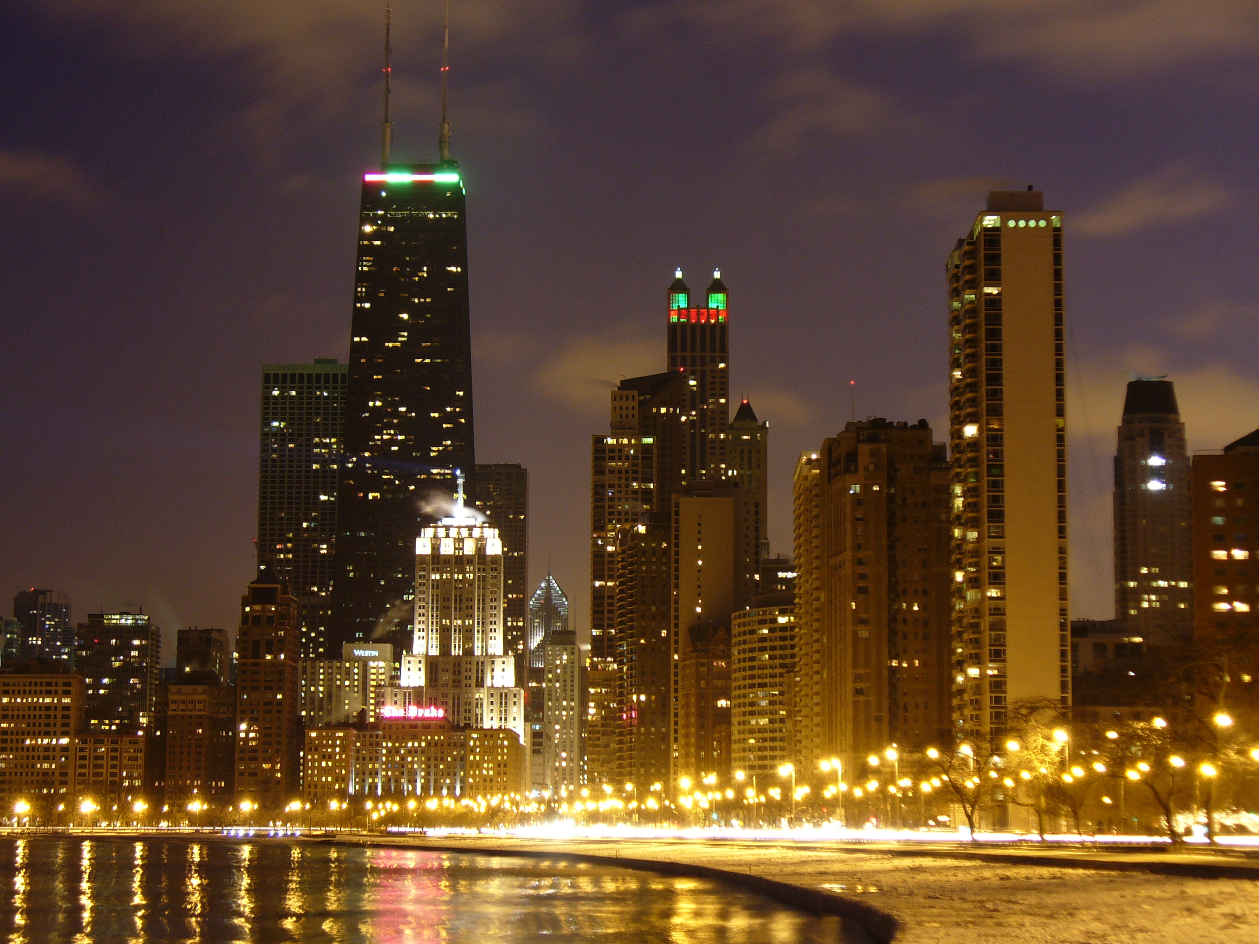 This is a photograph of Oak Street Beach in Chicago, IL on a cold night in January. The road in this picture is Lake Shore Drive. The bright, art deco building with the lit beacon is the Palmolive Building. The short building in front of the Palmolive Building is the Drake Hotel. The tall, black building behind the Palmolive Building is the John Hancock Center. The rectangular building behind and to the left of the John Hancock Center is the Water Tower Place. The tall building just right of center, with its roof lit up in red and green, is the 900 North Michigan building.